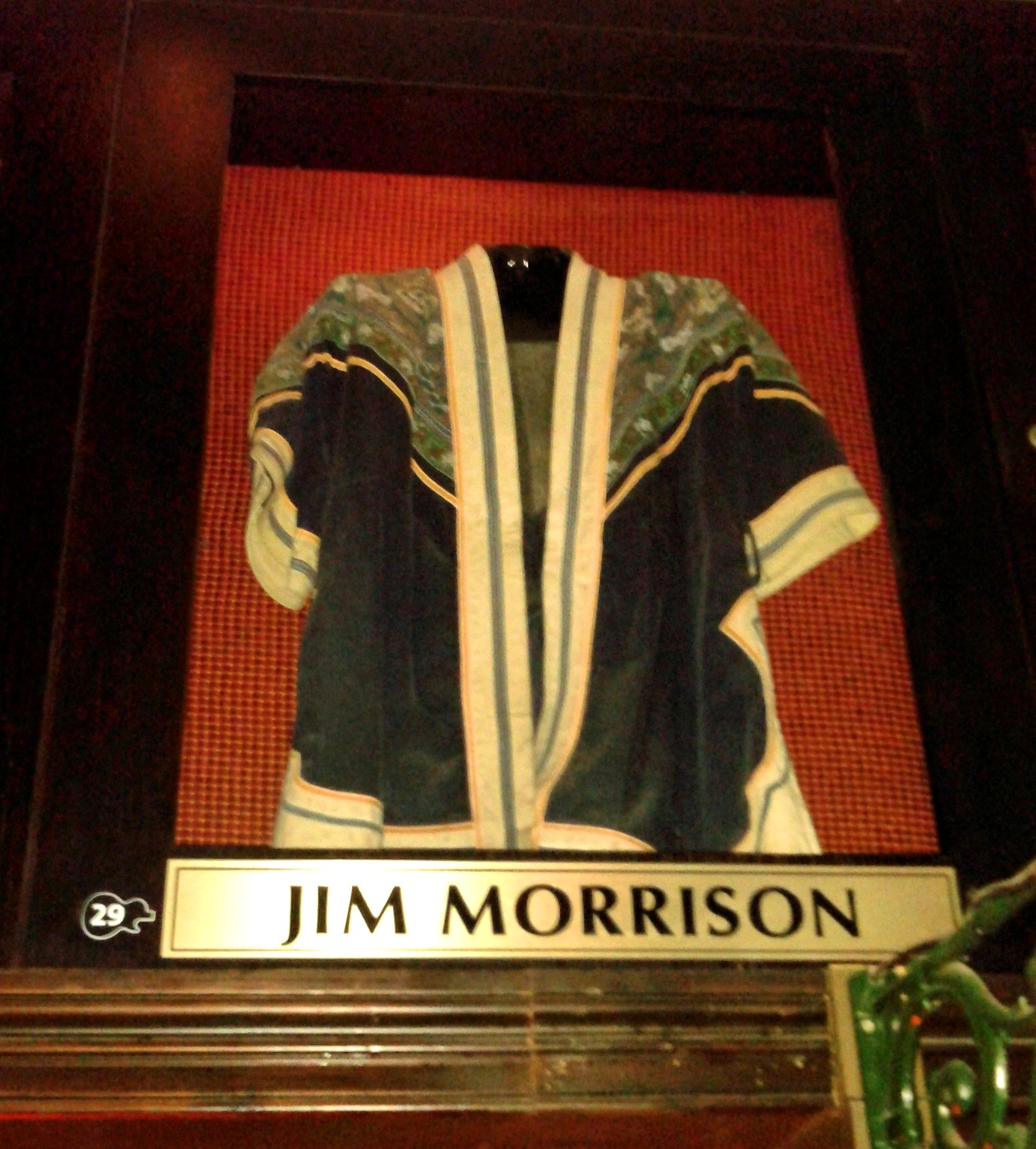 Jacket of Jim Morrison in the London Hard Rock Café